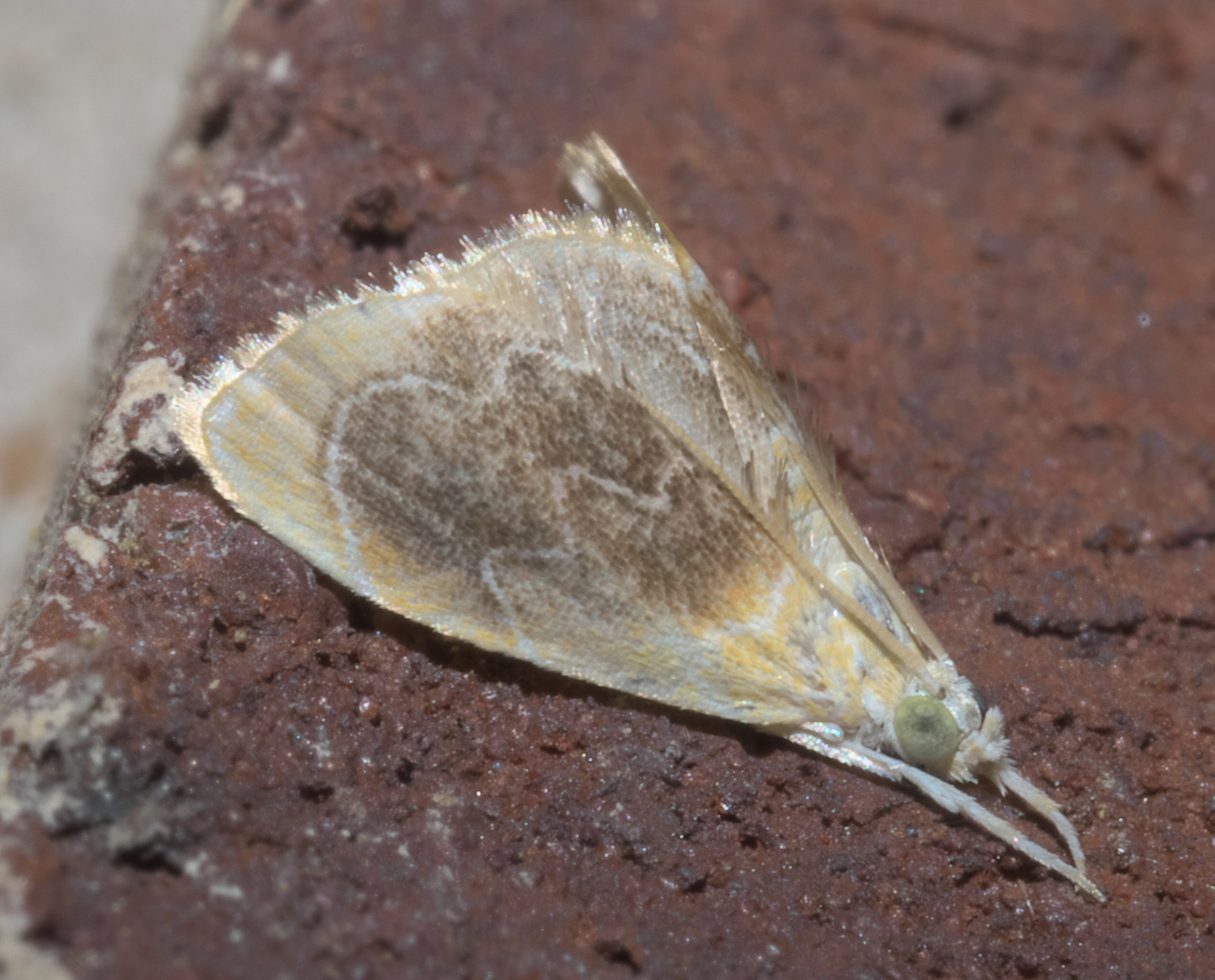 Glaphyria cappsi, Hodges #4874, Size: 6.6 mm, ID Confidence: 86